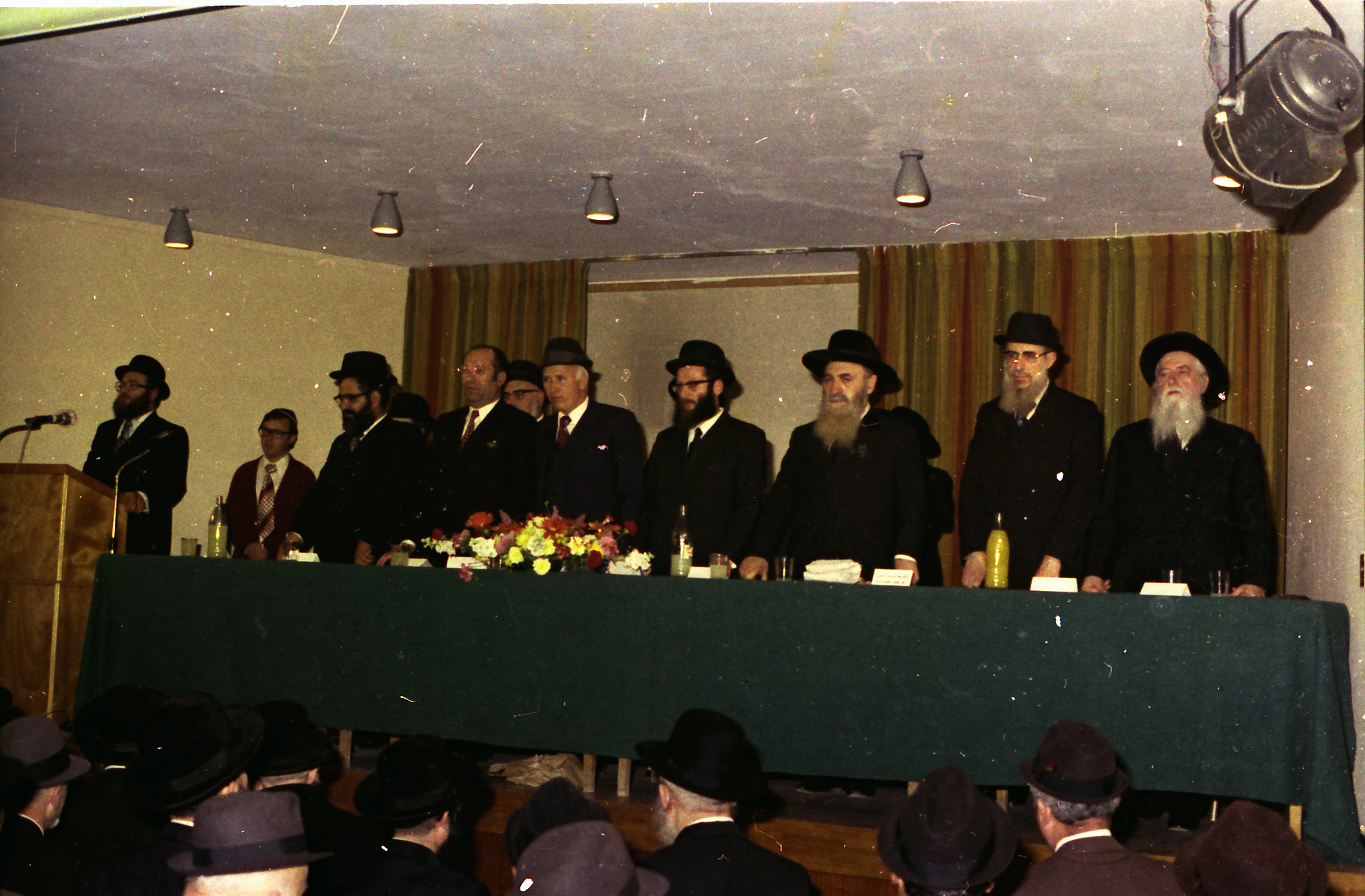 הרב נתן אורטנר ניבחר כרב ראשי ללוד